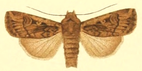 Image from Plate 5 of Die Gross-Schmetterlinge der Erde (The Macrolepidoptera of the World) Vol. 3